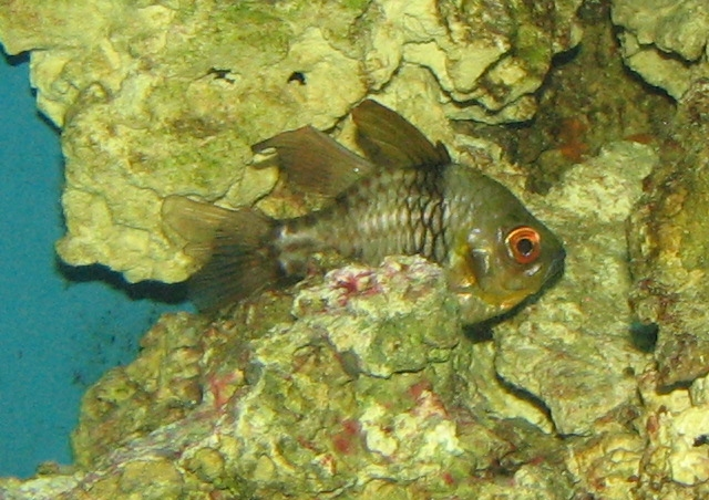 Pajama Cardinal Fish (Sphaeramia nematoptera) at Newport Aquarium